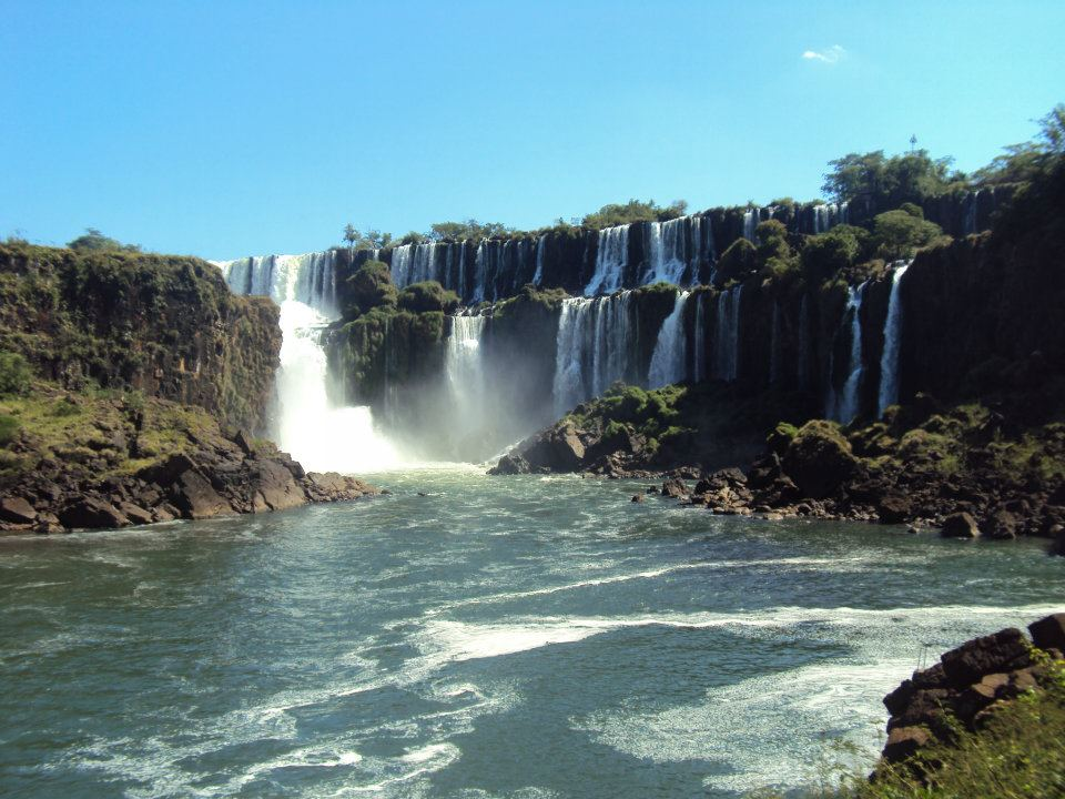 Parque Nacional Iguazú, Argentina.